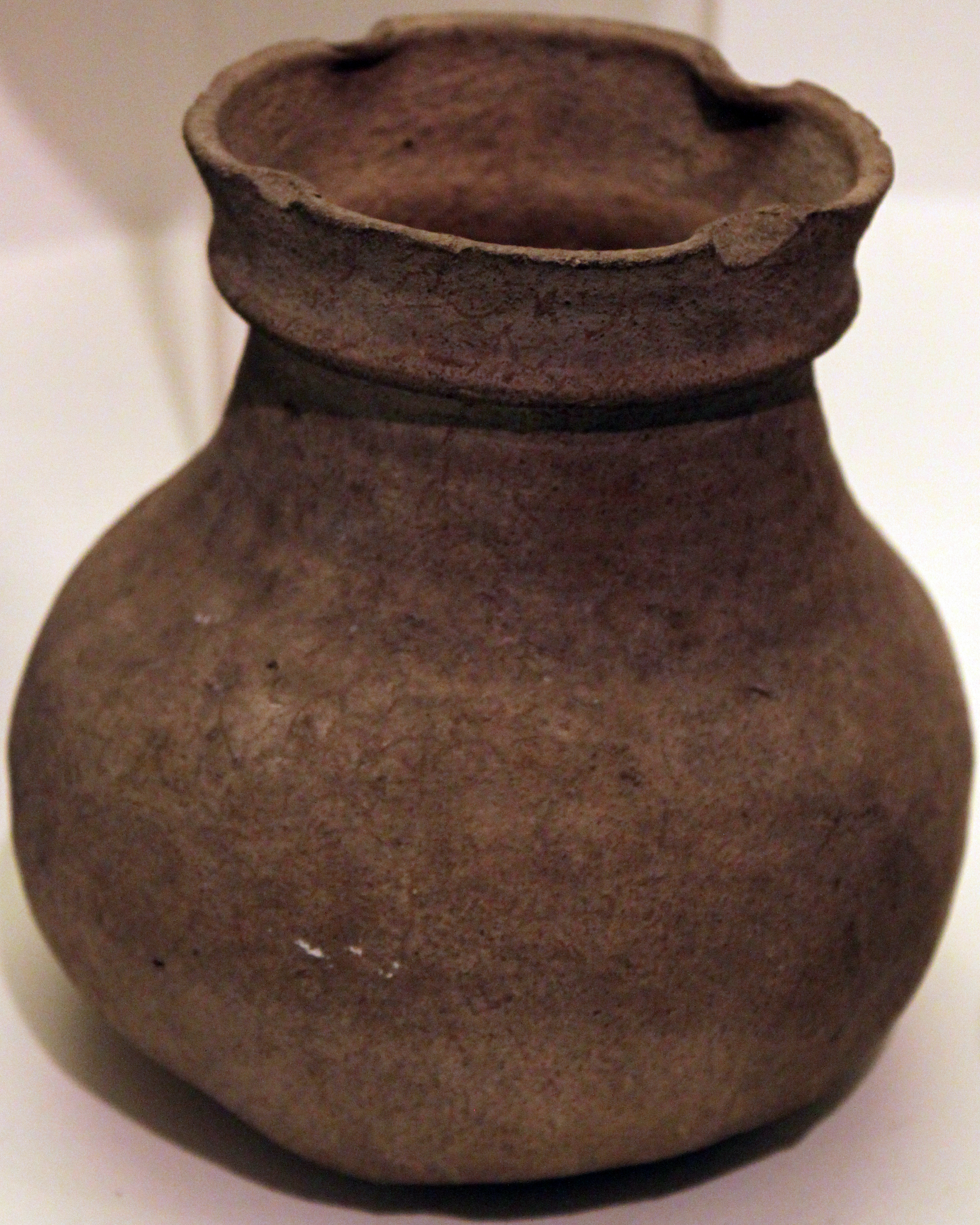 Household vessel, earthenware found in Berlin between Stralauer Street, Kloster Street, Parochial Street and Jüden Street, 14th Century; Märkisches Museum Berlin